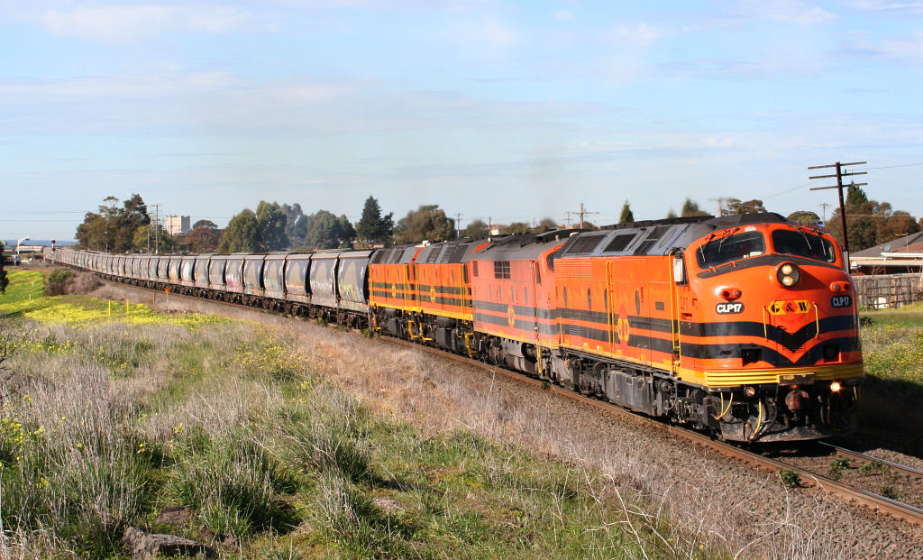 Genesee and Wyoming Australia operated grain train at Geelong, Victoria, Australia. Locos are CLP17, GM class, 2x 22 class (ex NSW 422 class) then CFCLA hoppers